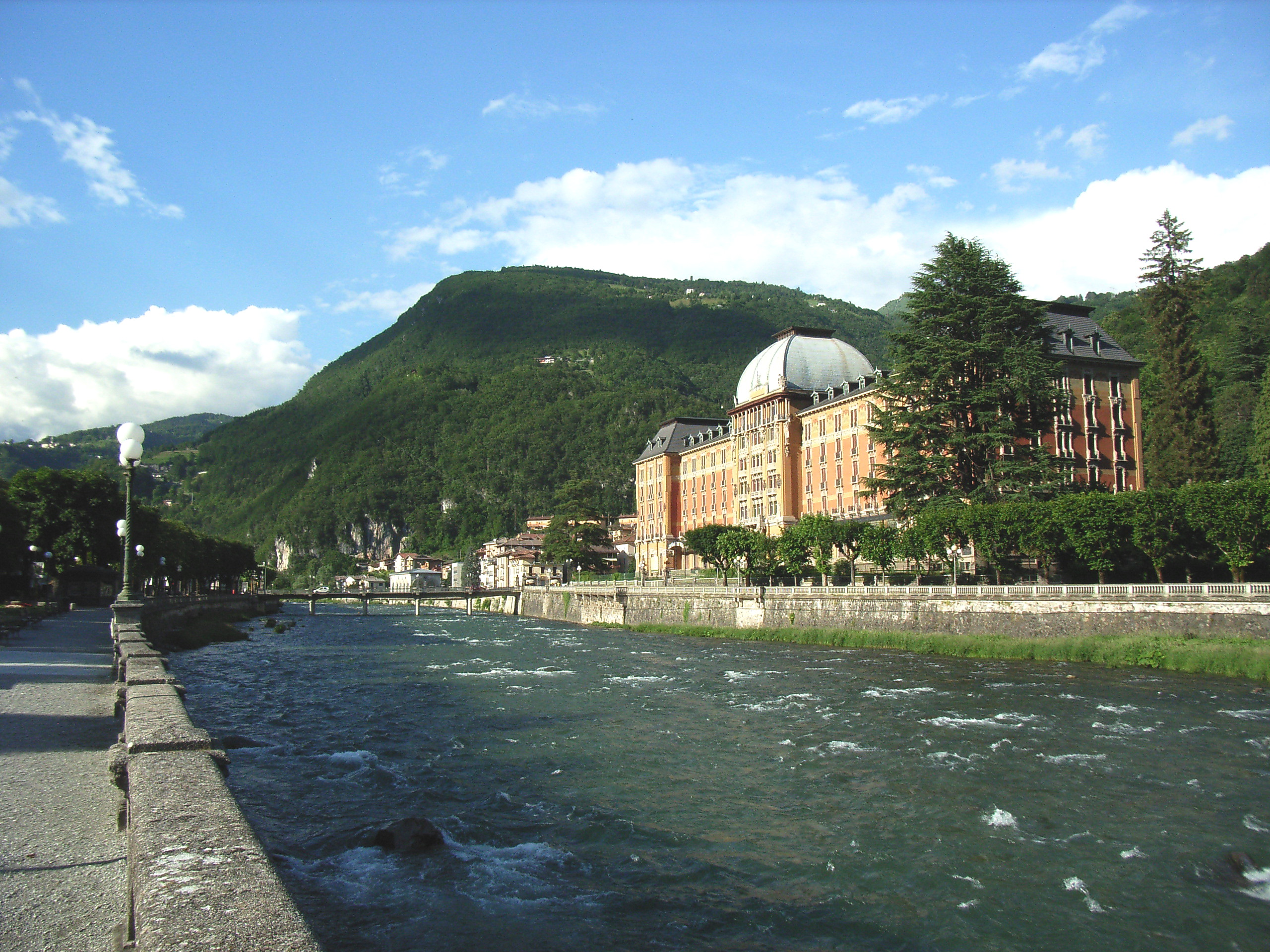 San Pelligrino Terme